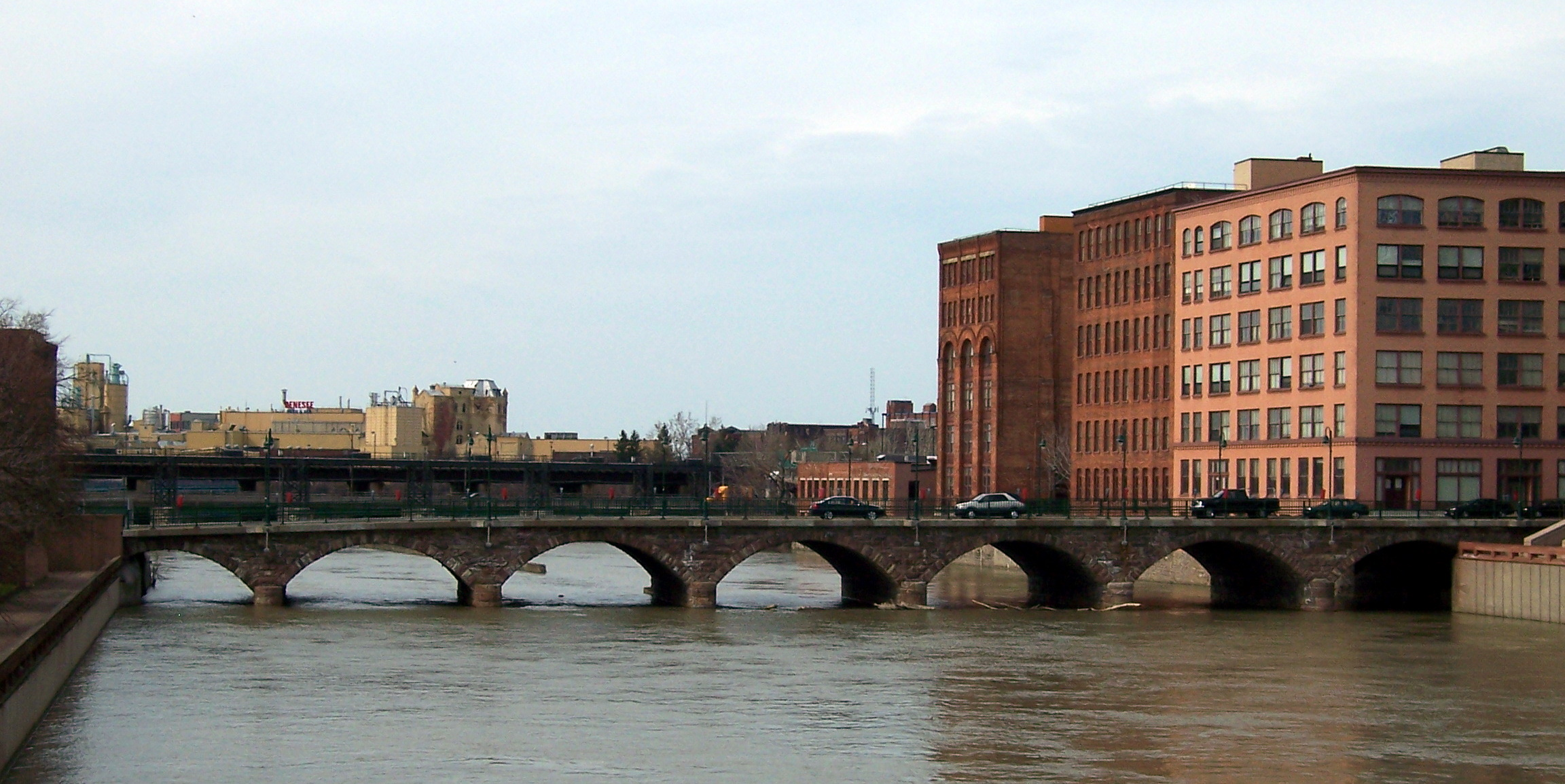 The Andrews Street Bridge in downtown Rochester, New York. It was built in 1893 to span the Genesee River. It was listed on the National Register of Historic Places in 1984.